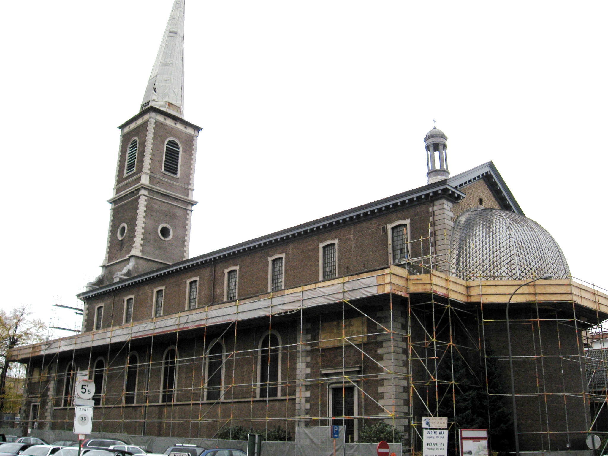 Church of Saint Catherine in Maaseik, Limburg, Belgium